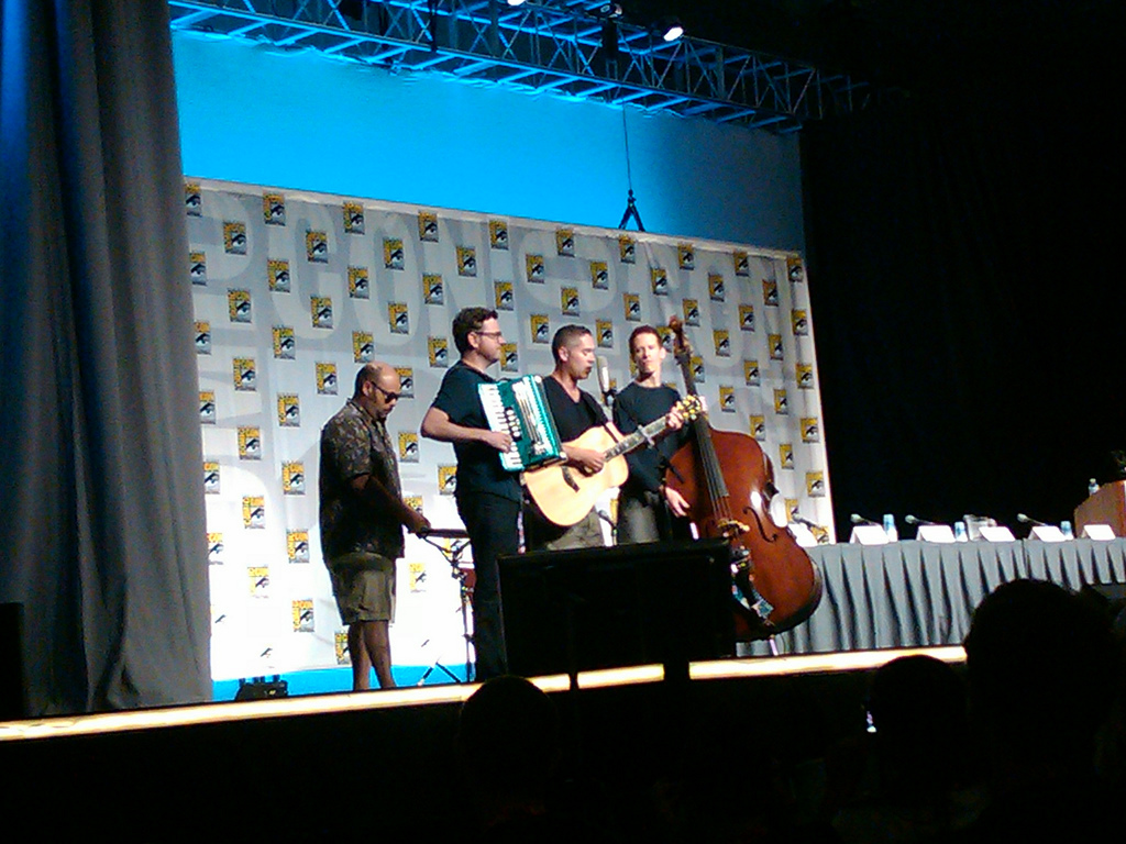 Barenaked Ladies, The Big Bang Theory